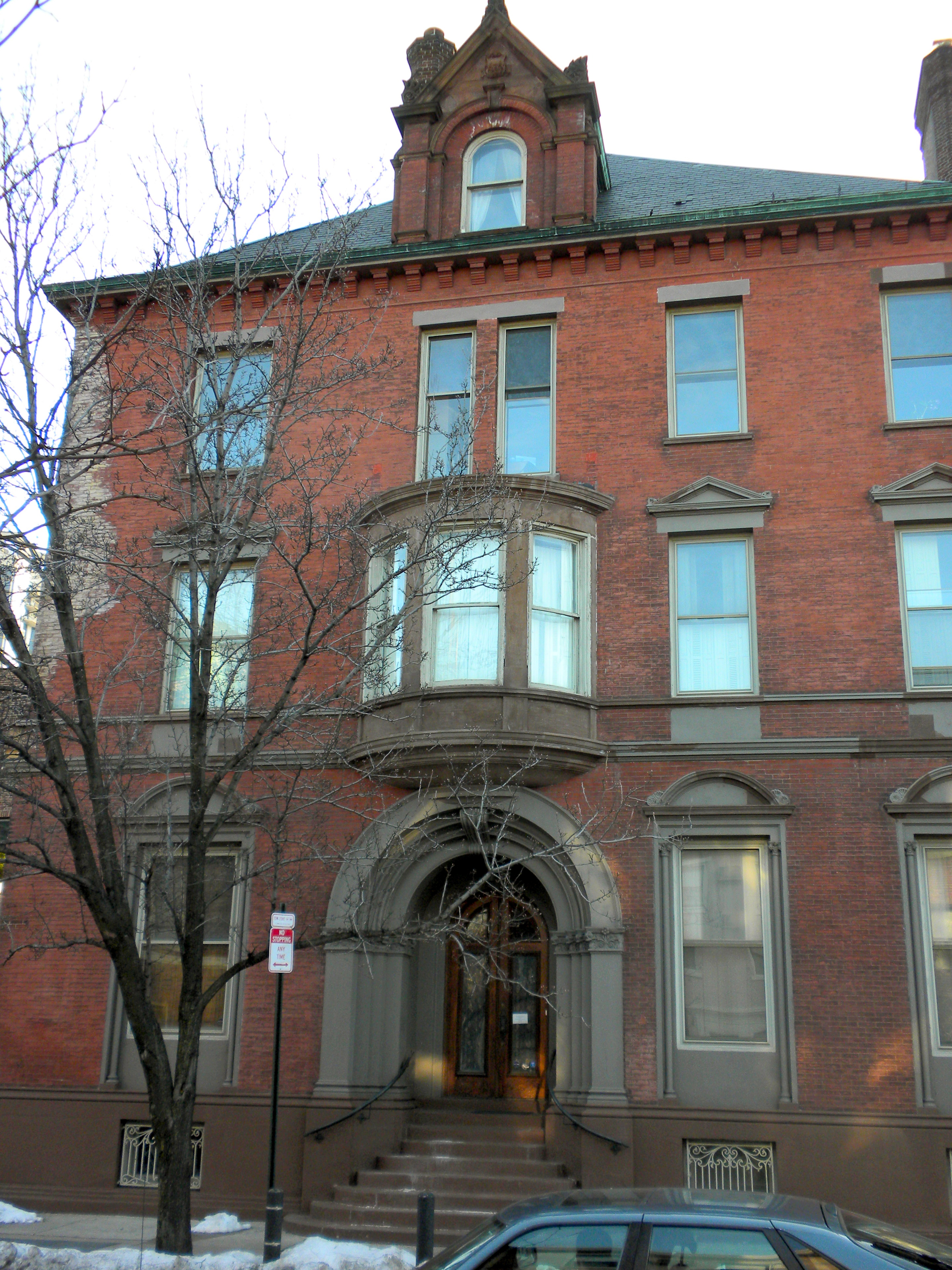 Bishop Mackay–Smith House in Philadelphia. On NRHP since January 25, 1980. At 251 South 22nd Street in Rittenhouse Square West neighborhood of Center City